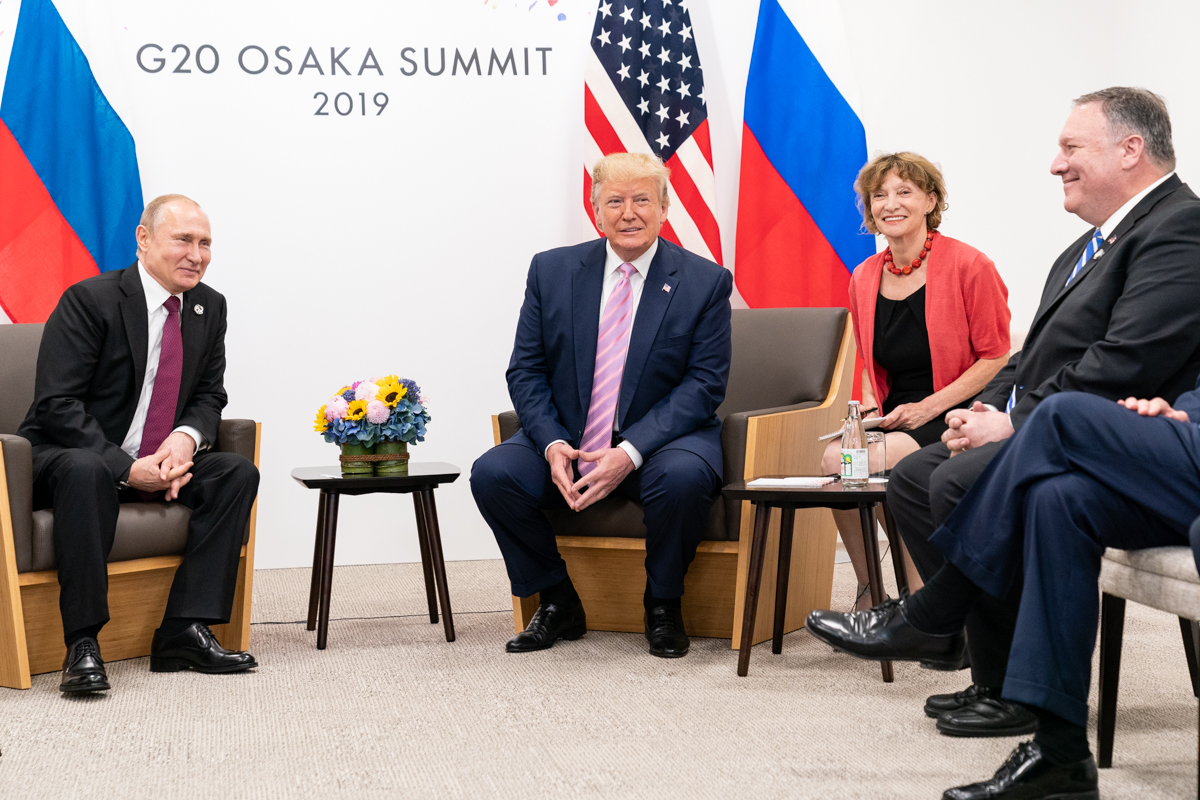 President Donald J. Trump participates in a bilateral meeting with the President of the Russian Federation Vladimir Putin during the G20 Japan Summit Friday, June 28, 2019, in Osaka, Japan. (Official White House Photo by Shealah Craighead)